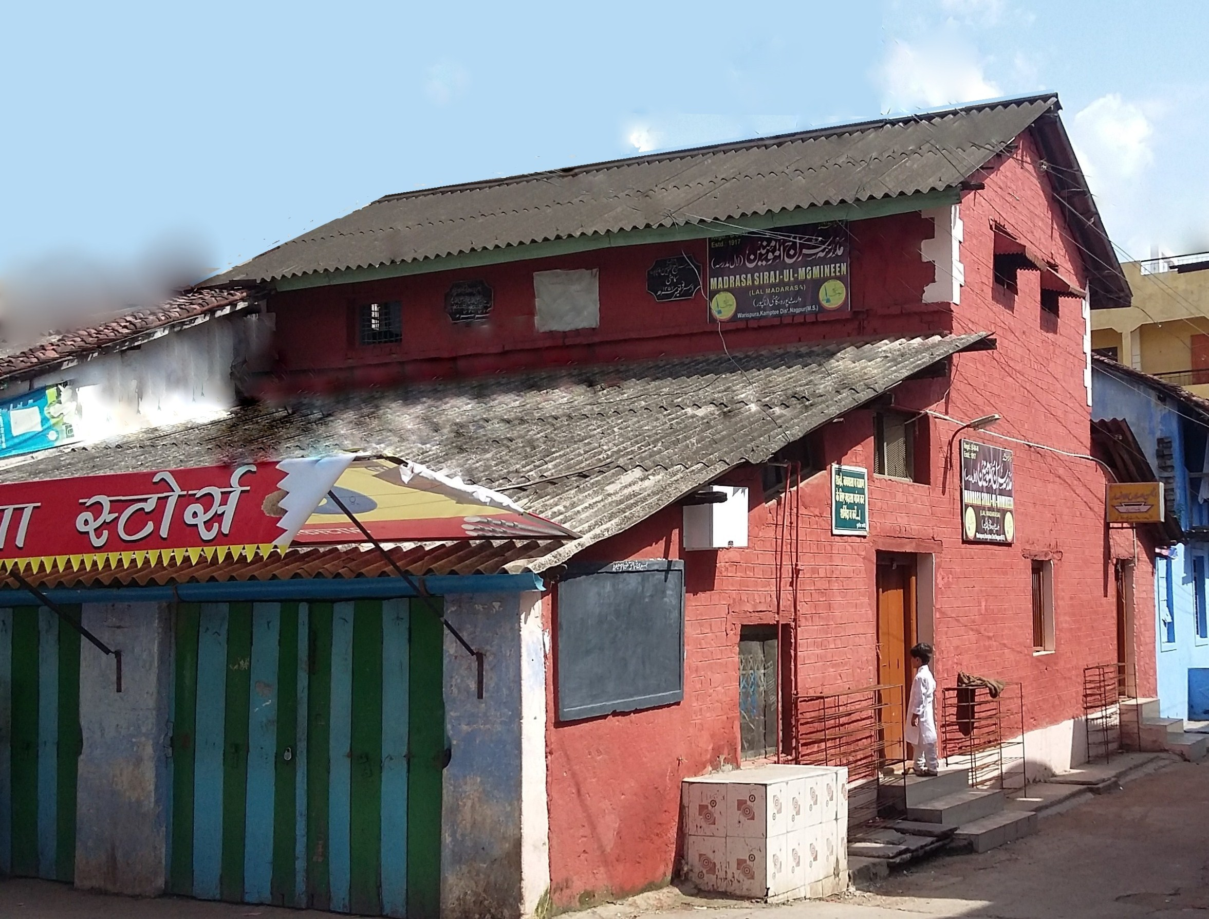 مدرسہ سراج المومنین (لال مدرسہ )